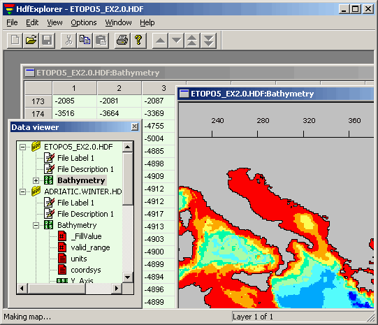 HDF Explorer